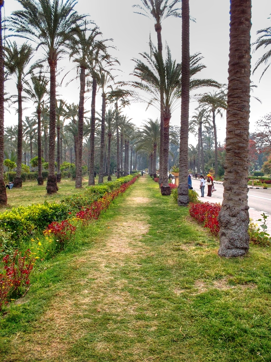 Phoenixs at Montaza Palace garden, Alexandria